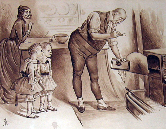 Mr and Mrs Micawber and the Twins From "David Copperfield", Ink and wash drawing